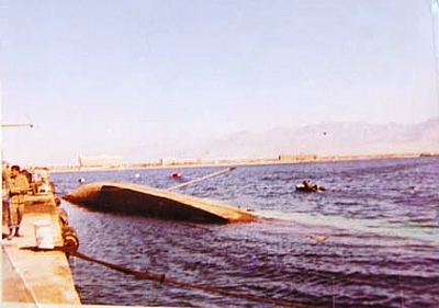 Auxiliary ship INS Bat Galim capsiized in Port of Eilat